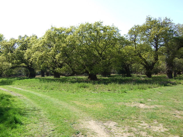 Oak Grove in 'The Thicks', part of Staverton Park Staverton Park has some of the oldest oak trees in East Anglia.